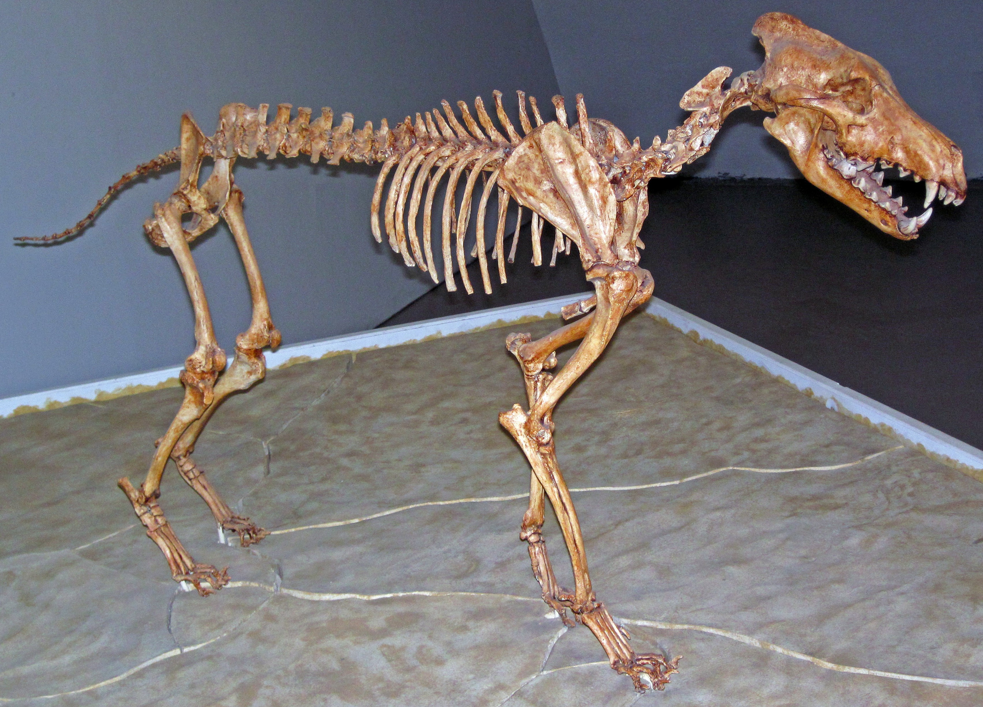 Canis dirus Leidy, 1858 - fossil dire wolf skeleton from the Pleistocene of North America. (public display, Sternberg Museum of Natural History, Hays, Kansas, USA) Classification: Animalia, Chordata, Vertebrata, Mammalia, Carnivora, Canidae